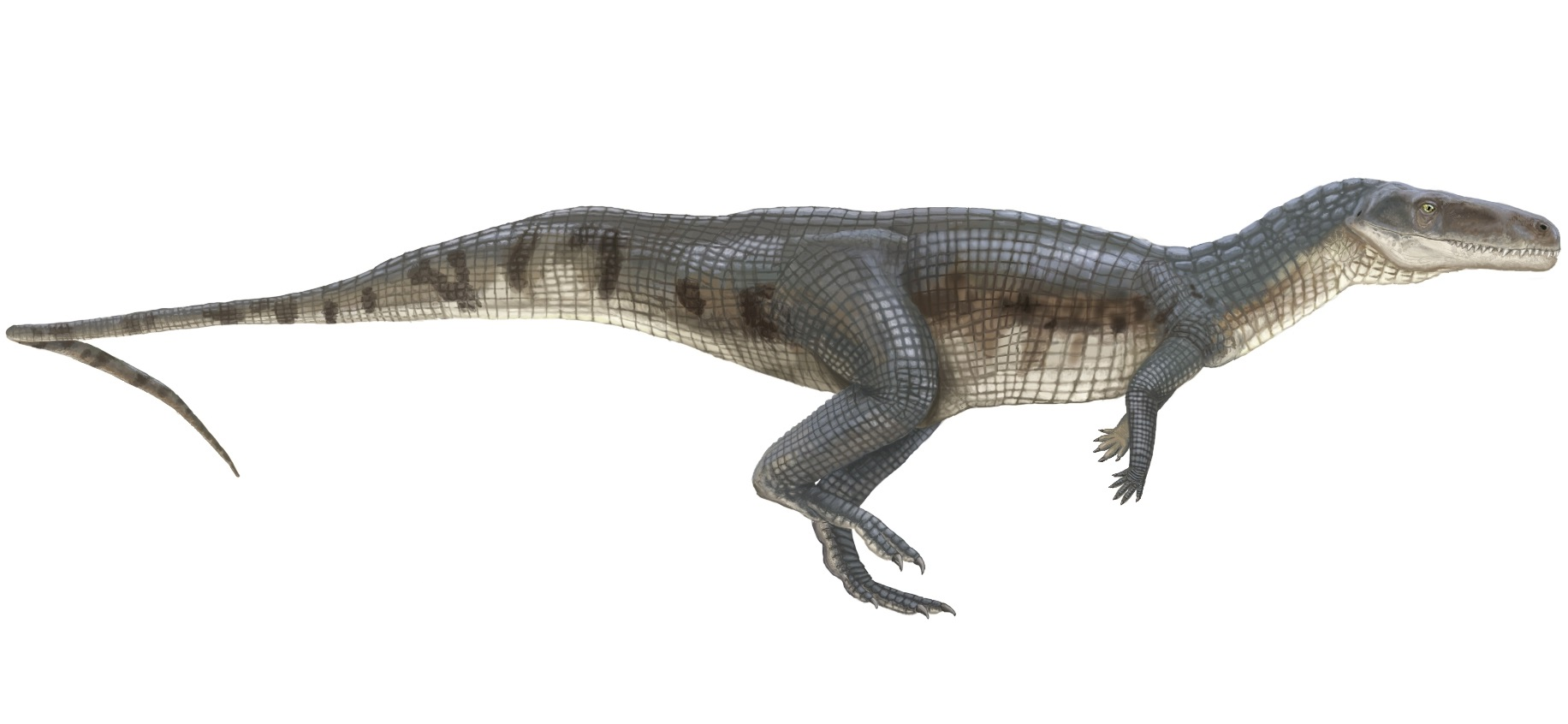 Life restoration of Poposaurus gracilis. Based on Figure 1 of "The bipedal stem crocodilian Poposaurus gracilis: inferring function in fossils and innovation in archosaur locomotion" by Jacques A. Gauthier, Sterling J. Nesbitt, Emma R. Schachner, Gabe S. Bever, and Walter G. Joyce (Bulletin of the Peabody Museum of Natural History 52 (1): 107-126).